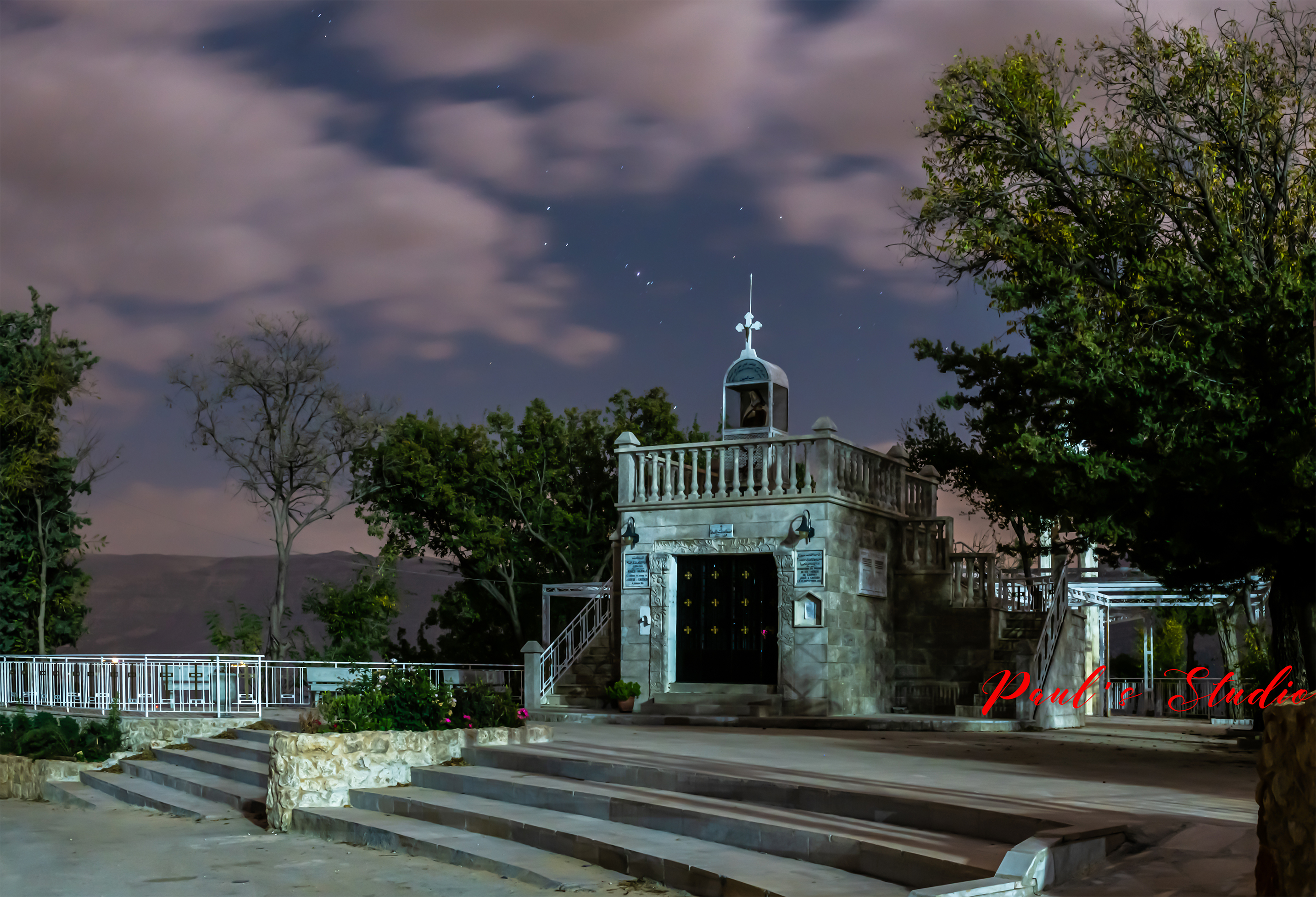 Saint Tereze Church Qartaba